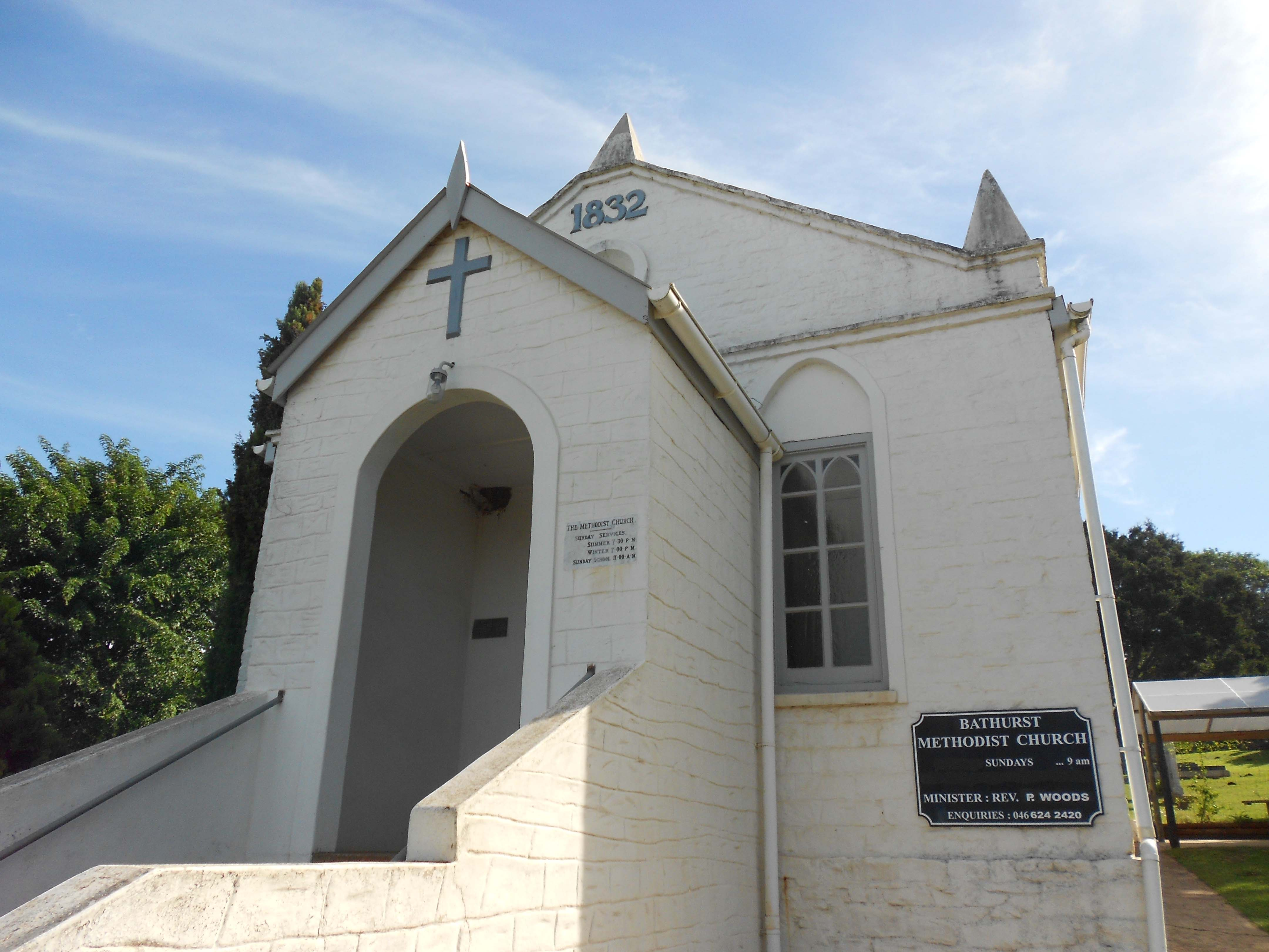 The Methodist Church in Bathurst was built by Samuel Bradfield in 1832 and is still in used. This media shows a South African Protected Site with SAHRA file reference 9/2/009/0016.